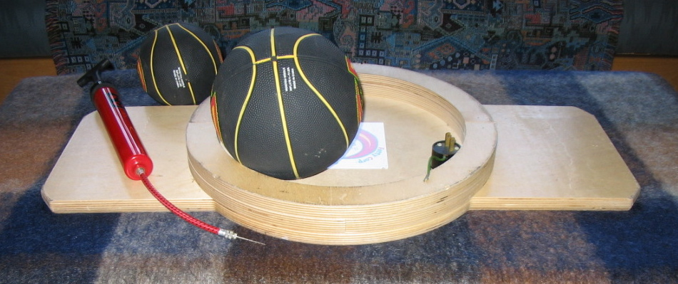 Balance 360 Board, produced originally by Fahtee Corp. a/k/a Fatty Corp., but acquired by Balance 360, LLC . The smaller ball is for a beginner. The level of challenge of both balls can be gradually increased by pumping more air into them, starting with an amount of air that doesn't expand the ball to a sphere.